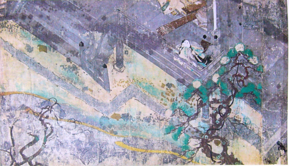 A scene of handscroll of NEZAME MONOGATARI, Height 25.8cm, color, gold, silver on paper, late 12th century, Japan, YAMATO-NUNKAKAN museum collection, Nara, Japan